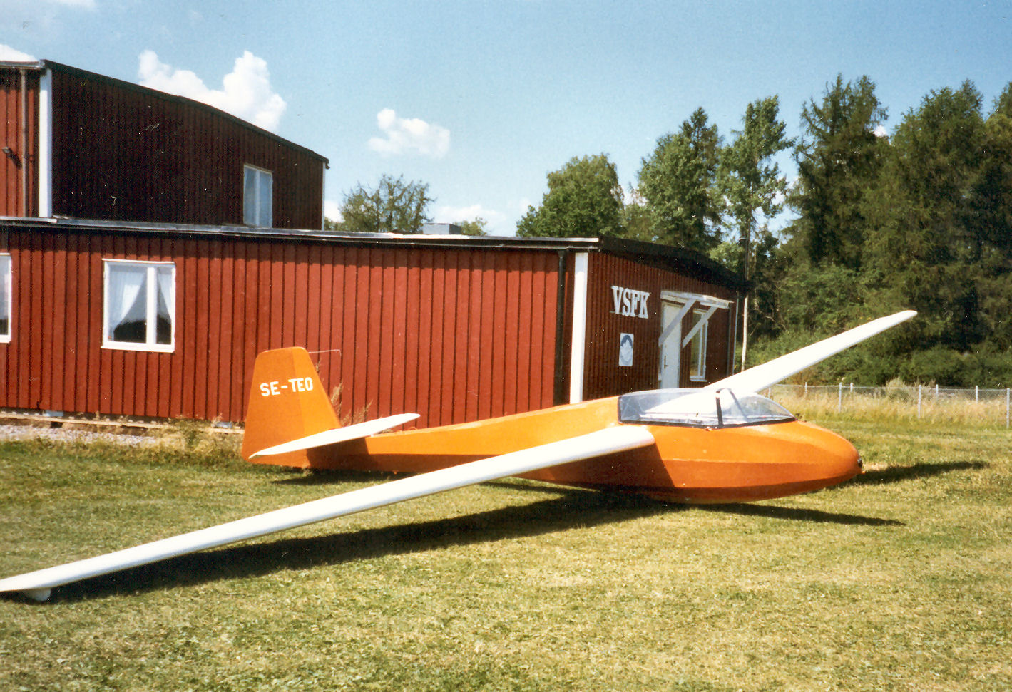 Scheibe Bergfalke III at Västerås-Johannisberg (ESSX), June 1999 SE-TEO (cn 5589) built 1966.